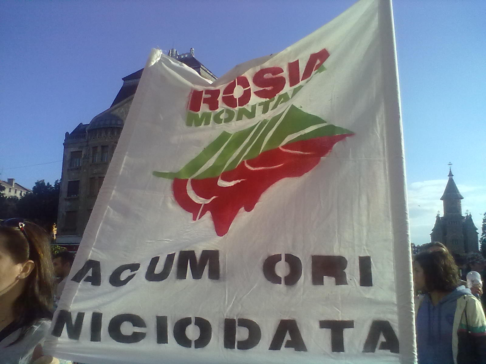 Protests against Rosia Montana gold exploatation in Timisoara, on September 22, 2013 (Now or never)